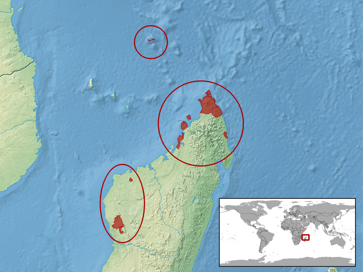 geographic distribution of Phelsuma abbotti (Native: Madagascar; Seychelles)